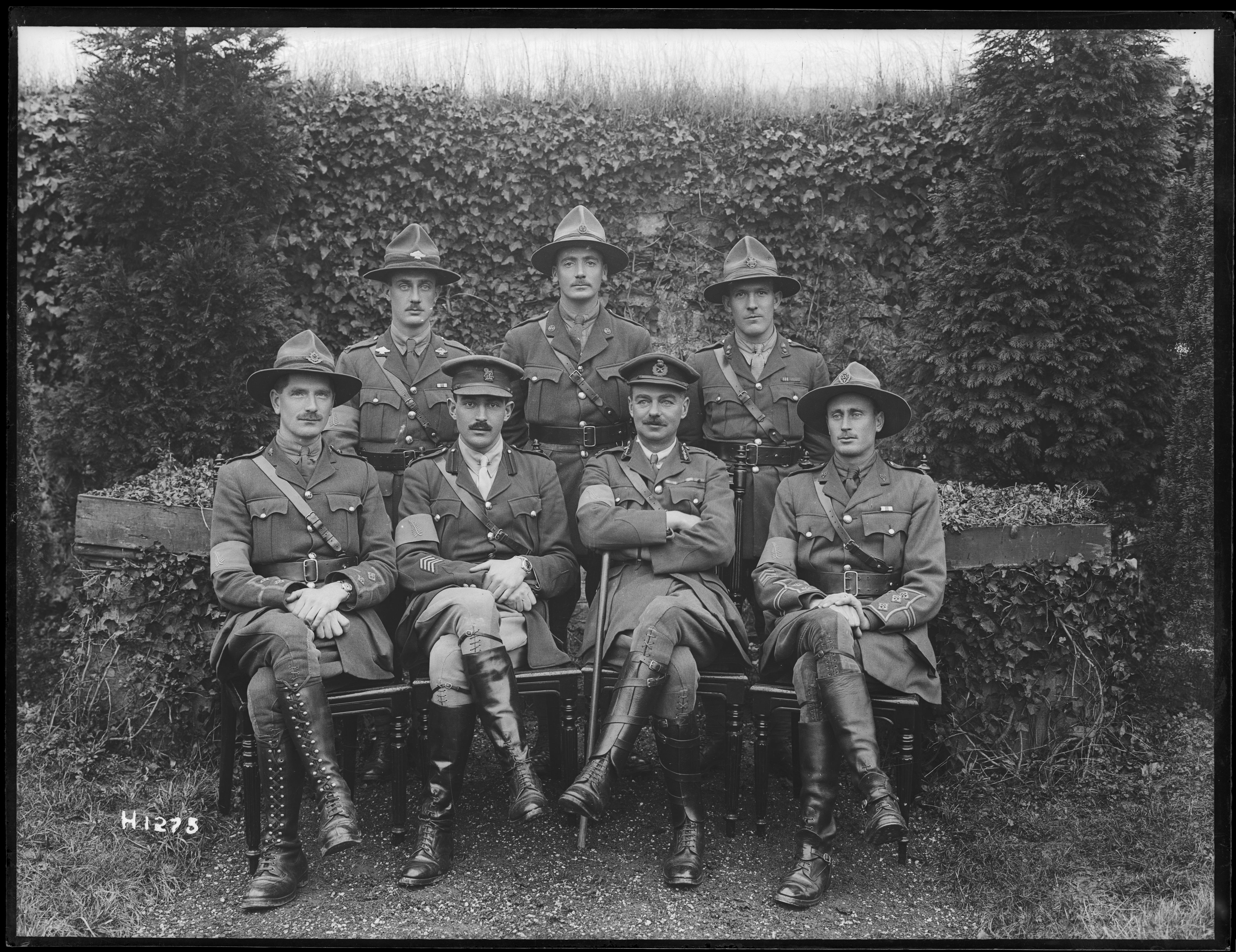 Group portrait photograph of Major-General Charles William Melvill with officers of the New Zealand Staff Force, wearing formal military uniform, taken circa 1918 by Henry Armytage Sanders. Inscriptions: Inscribed - Marginal notes on negative -bottom left: H1275. Quantity: 1 b&w original negative(s). Physical Description: Dry plate glass negative 6.5 x 8.5 inches Major-General Charles William Melvill with New Zealand Staff Force officers. Royal New Zealand Returned and Services' Association :New Zealand official negatives, World War 1914-1918. Ref: 1/1-002095-G. Alexander Turnbull Library, Wellington, New Zealand.